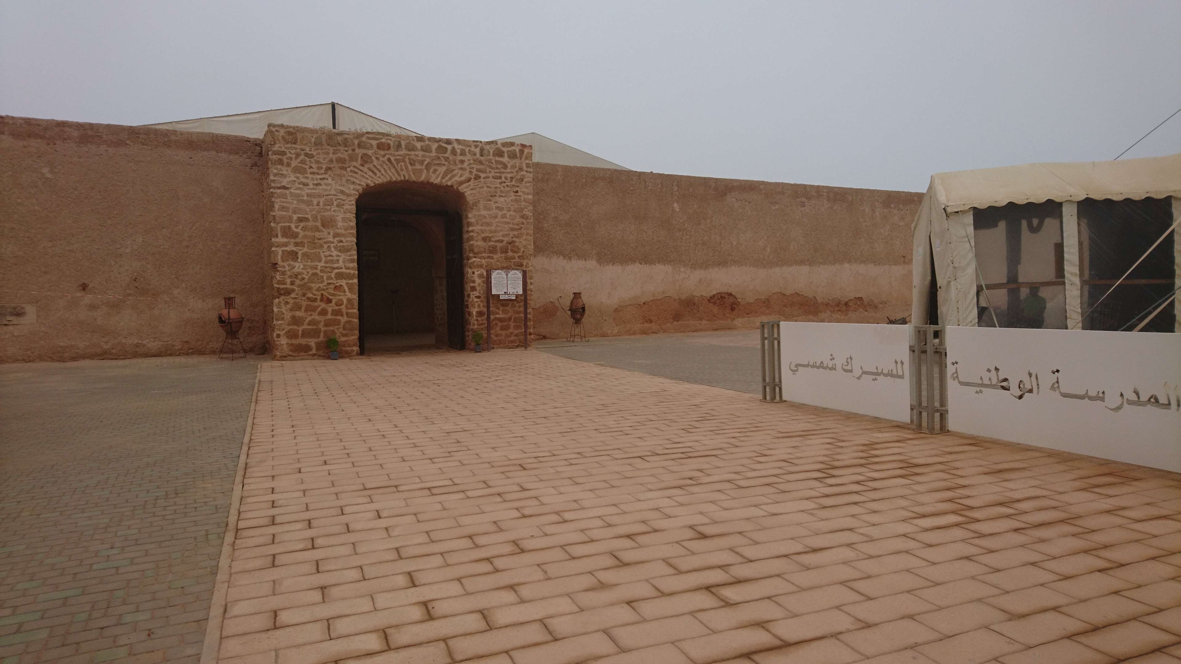 Entrance of the Kasbat Gnawa and the national Circus Shemsy